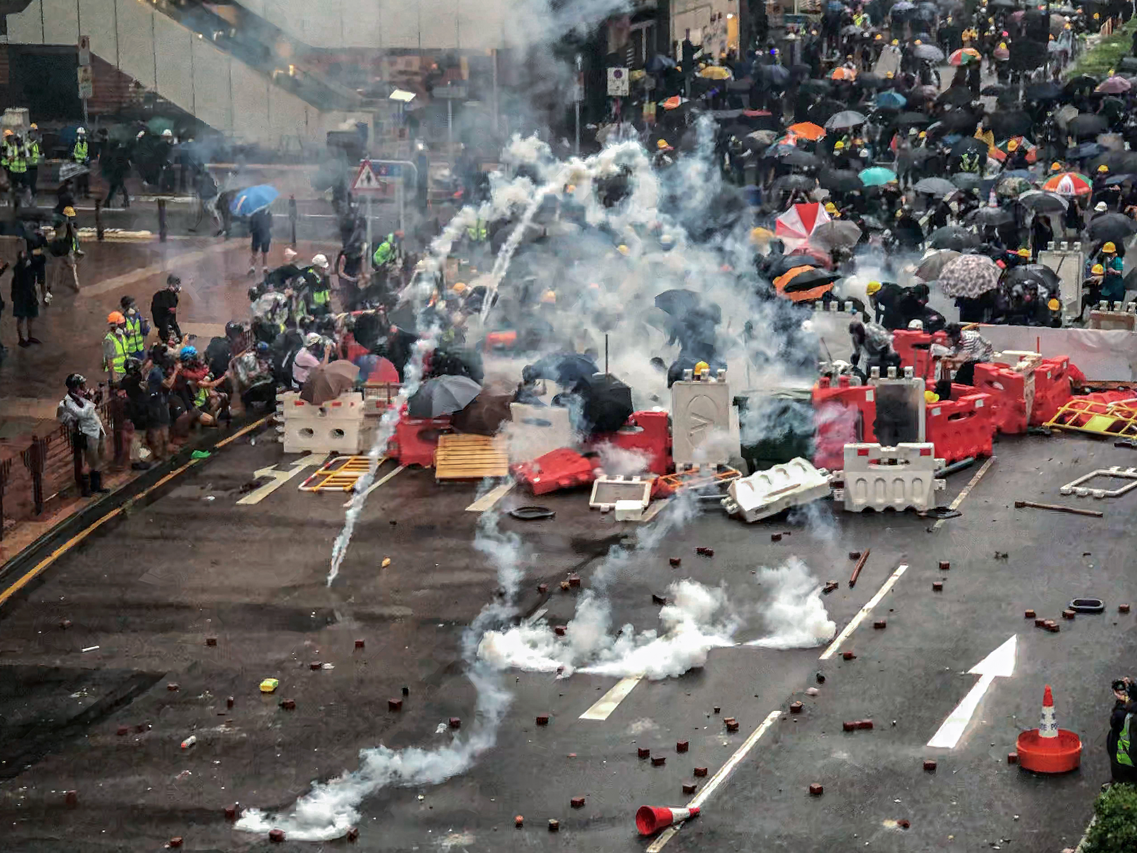 Standoff between protesters and the police at Yeung Uk Road